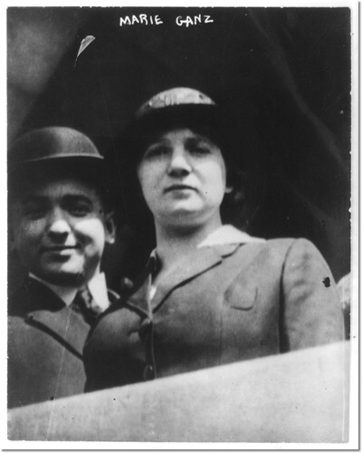 Marie Ganz after assassination attempt